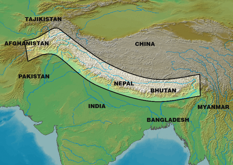 This is a map of the Himalayas that I cobbled together based on the information from a dozen surprisingly less than adequate maps of the region. The background topographical map is based off of the commons maps File:Topographic90deg N0E0.png and File:Topographic90deg N0E90.png. The locations of the countries are based off of looking at other maps, mostly at Wikipedia. They are for putting the range into a regional perspective and are not to be taken as definitive geopolitical boundaries. The rest is just done in , adding text, drawing lines, and then upping the darnkess on the area outside the mountain range. If I messed up, or you think you could do a better job, just do it! The method is outlined here for a reason. I know this isn't perfect. I hope that one day someone comes along and makes it better. I hold no ego or attachment to this work. The article needed a map, I gave it a map.